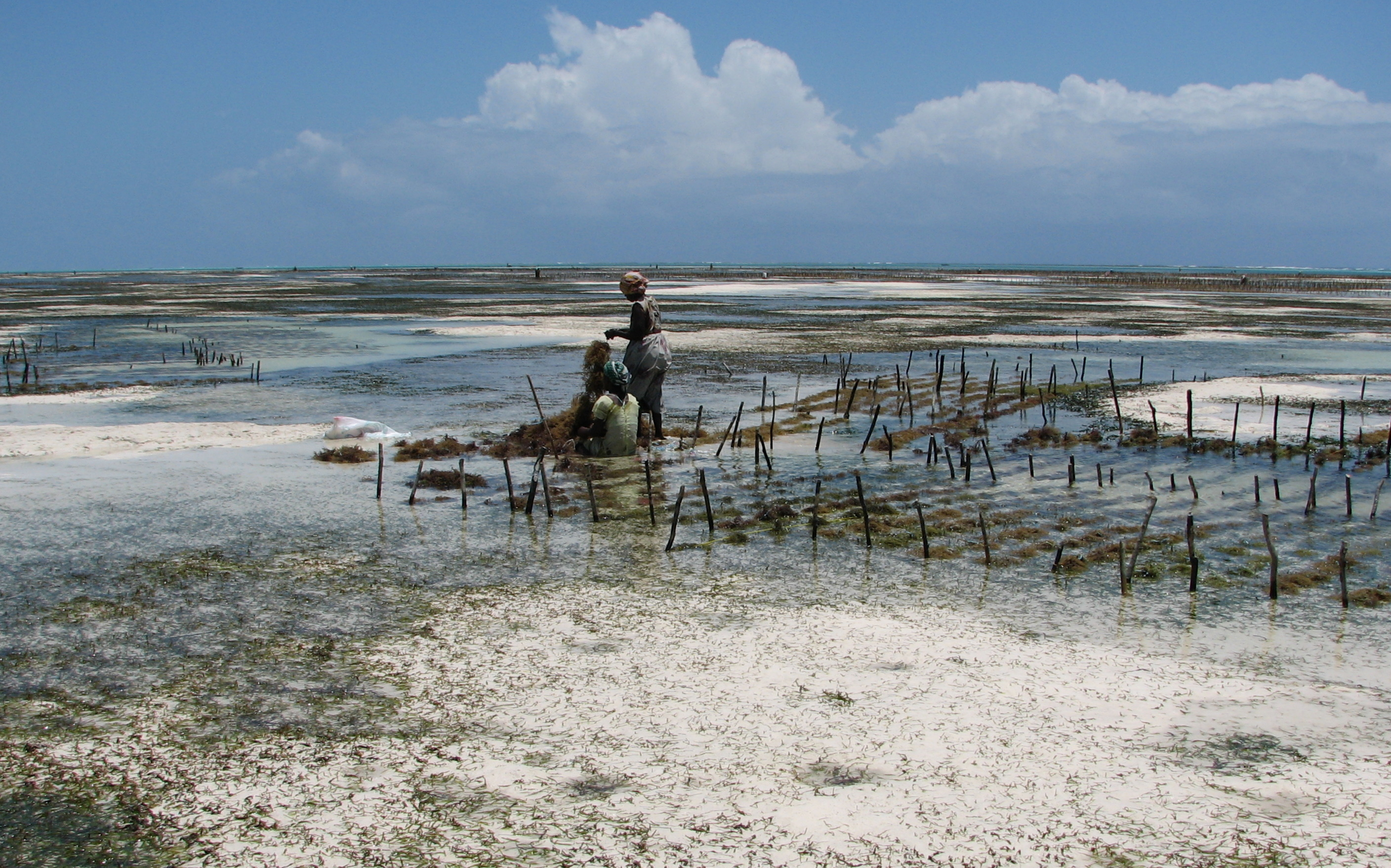 Aquacultures of red algae (Eucheuma sp.), Jambiani, Zanzibar, Tanzania